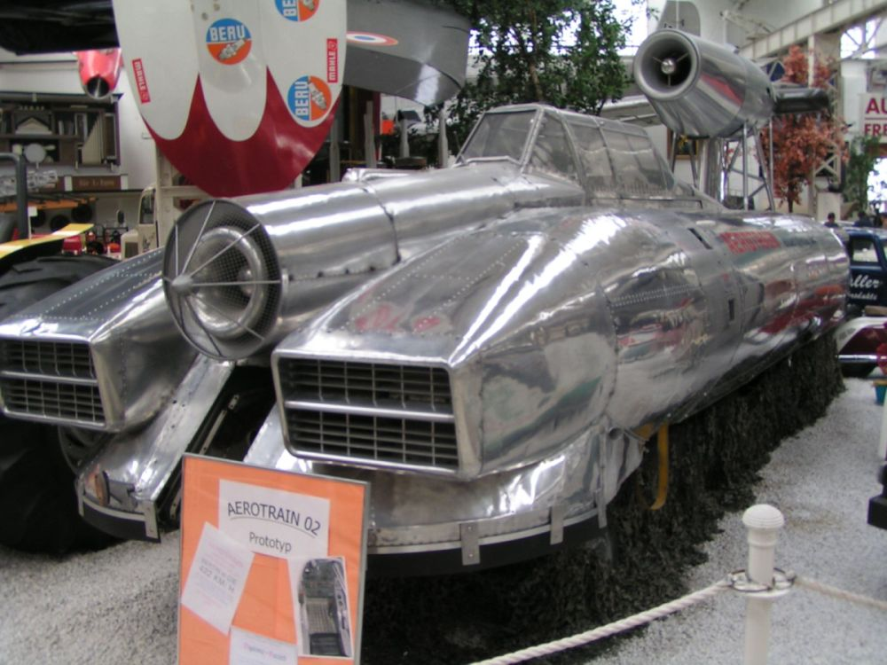 Aerotrain prototype #02 designed by Jean Bertin